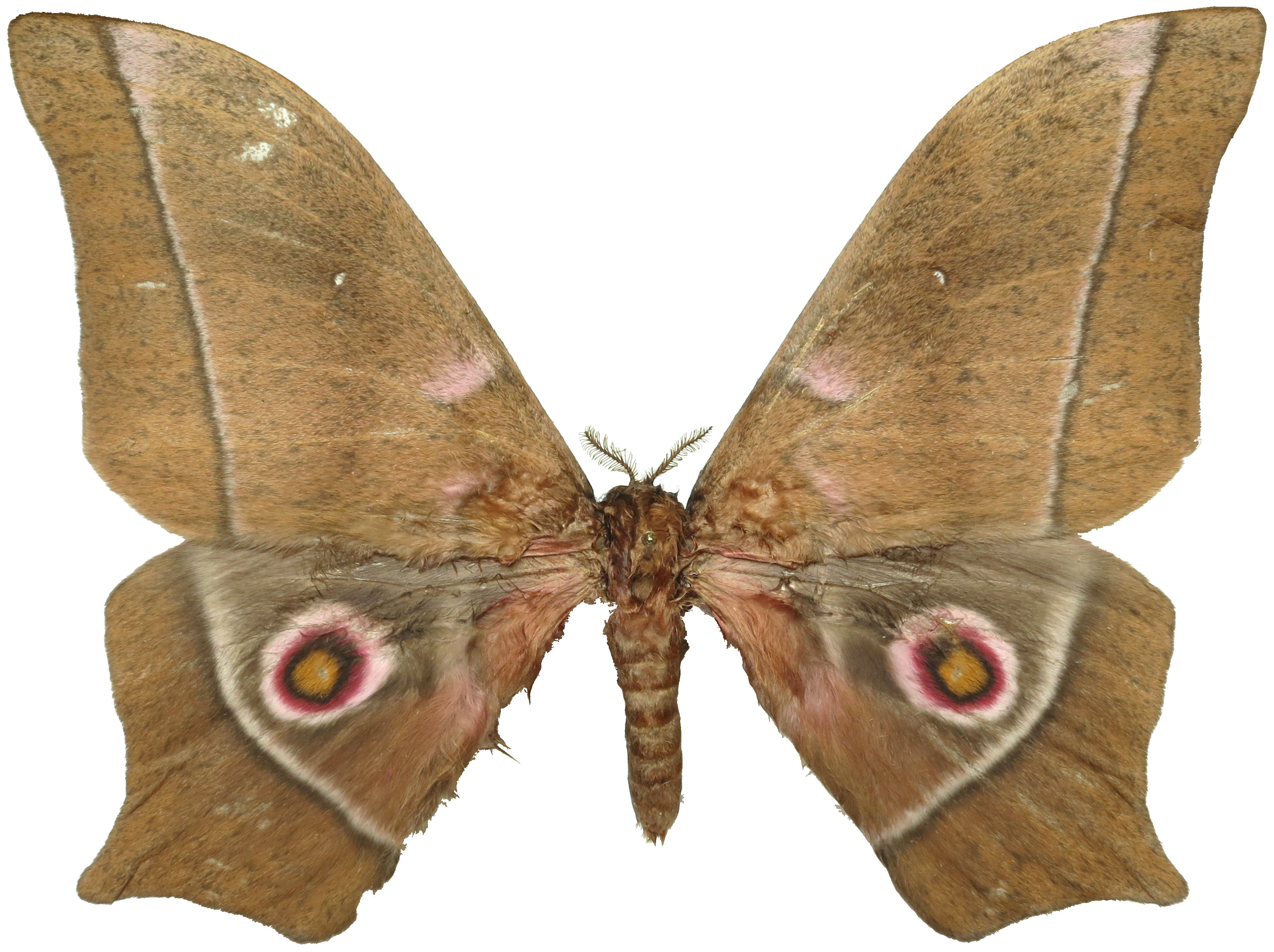 Imbrasia epimethea male from Ebogo, Cameroon